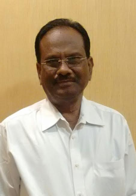 மருத்துவர் சு.நரேந்திரன் Dr S Narendran